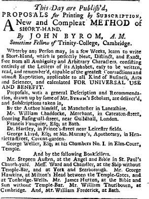 Advert for John Byrom's shorthand system 1741